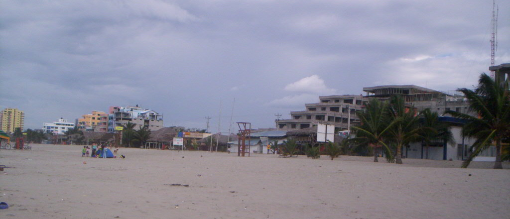 Atacames beach, worderful water!